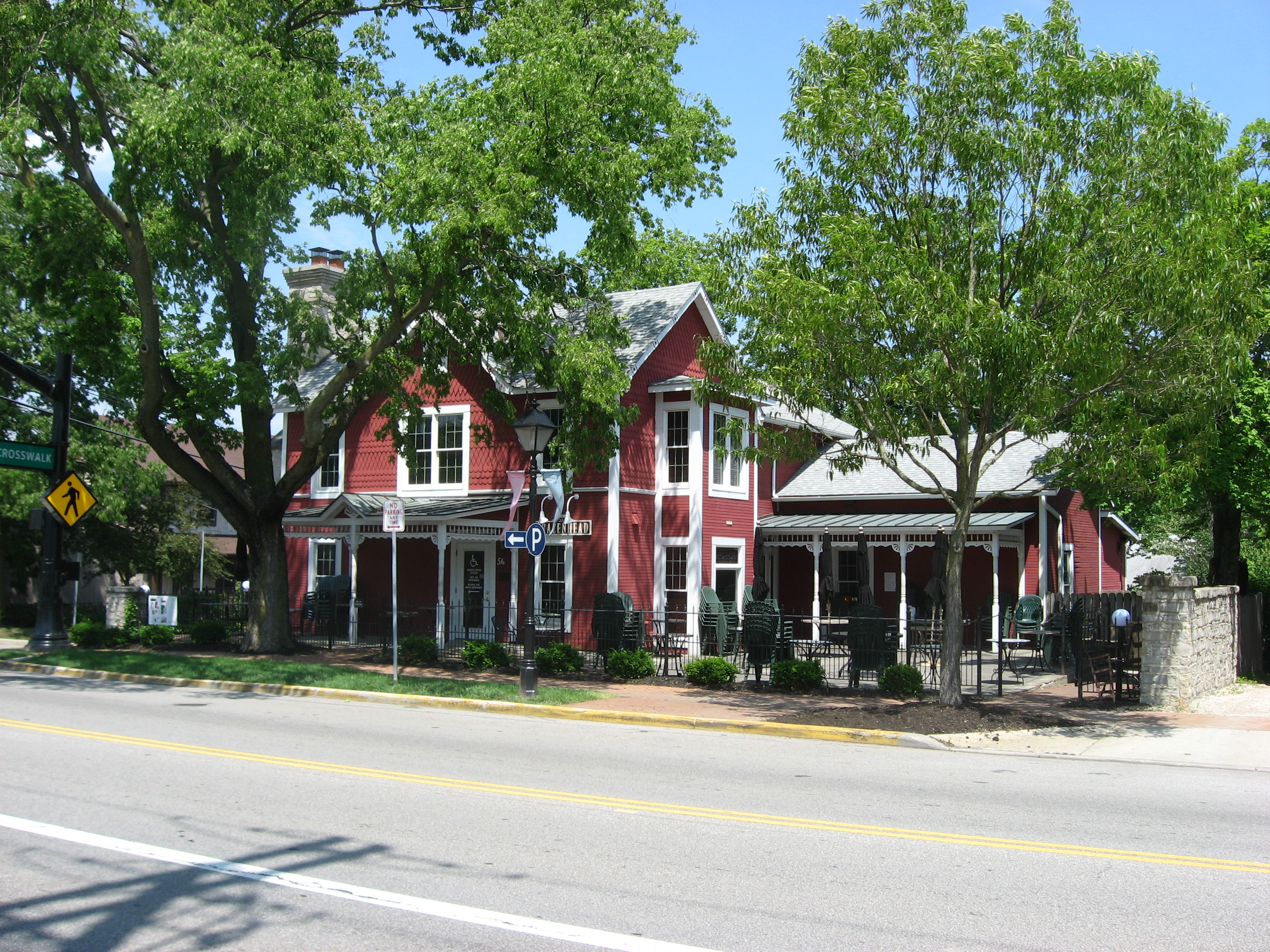 Front of the Artz House (now the Brazenhead Pub), located at 56 N. High Street (State Route 745) in Dublin, Ohio, United States. Built in 1870 and formerly used as an antique shop, it is listed on the National Register of Historic Places.